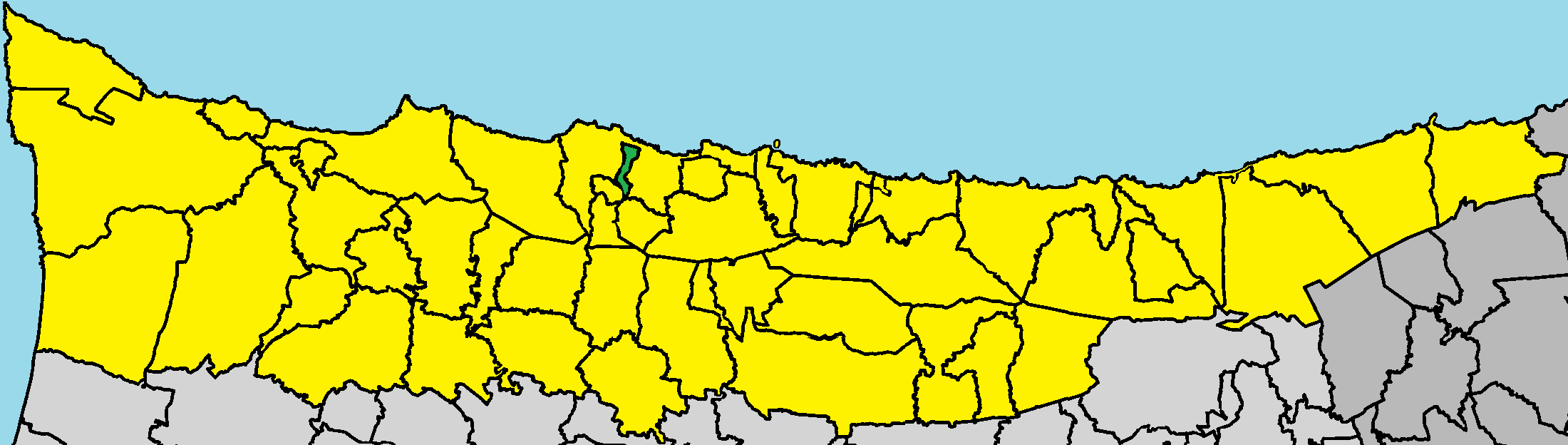 Elia Keryneias in Kyrenia District (de jure).